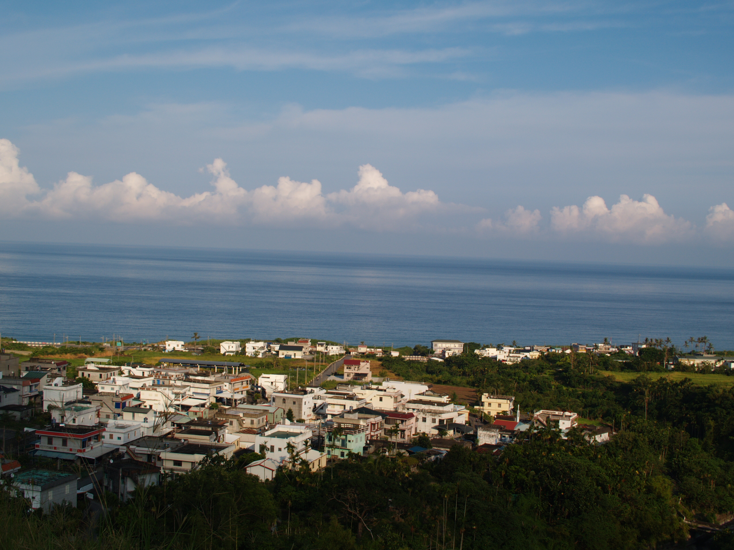 Ningpu is a coastal village in Changbin Township, Taitung City.